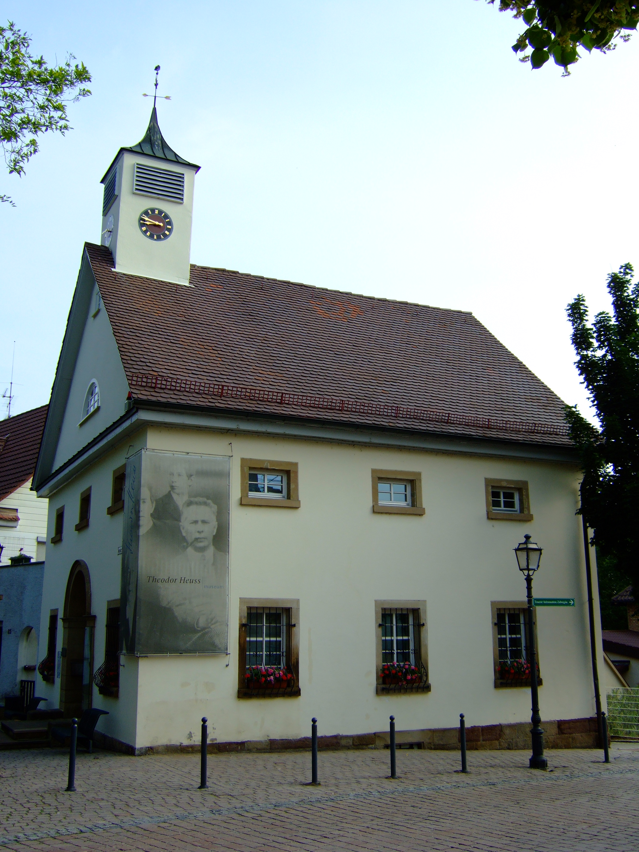 museum about Theodor Heuss, Brackenheim/Germany, by J. Köhler - 2007